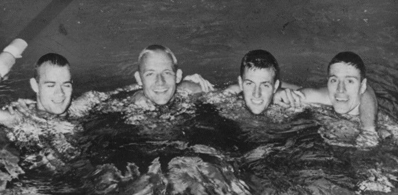 LG17 1960 Wire Photo FERRELL LARSON HAIT MCKINNEY Olympic Swimmers Relay Team